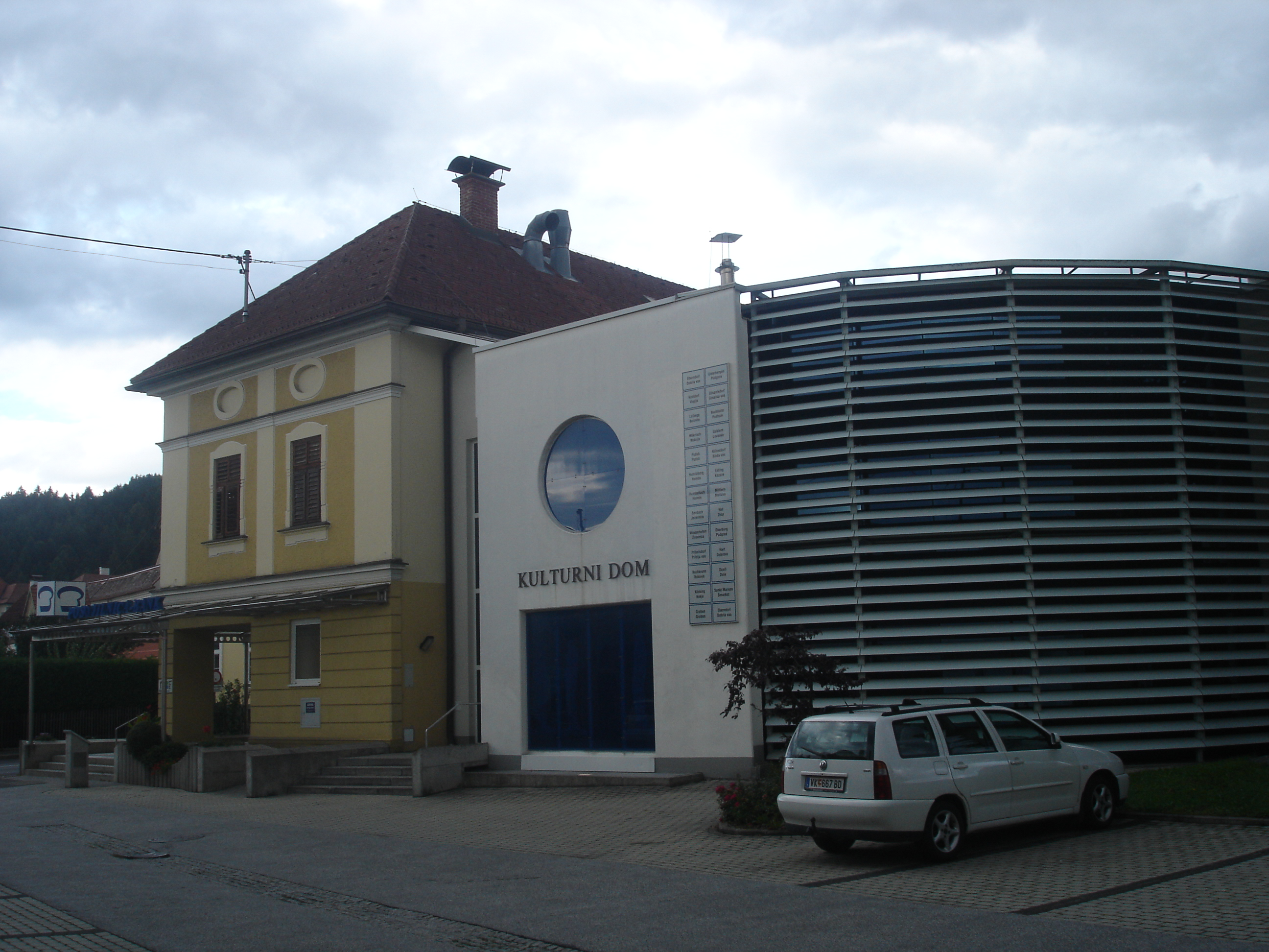 Slowenian cultural house, modern part, Eberndorf